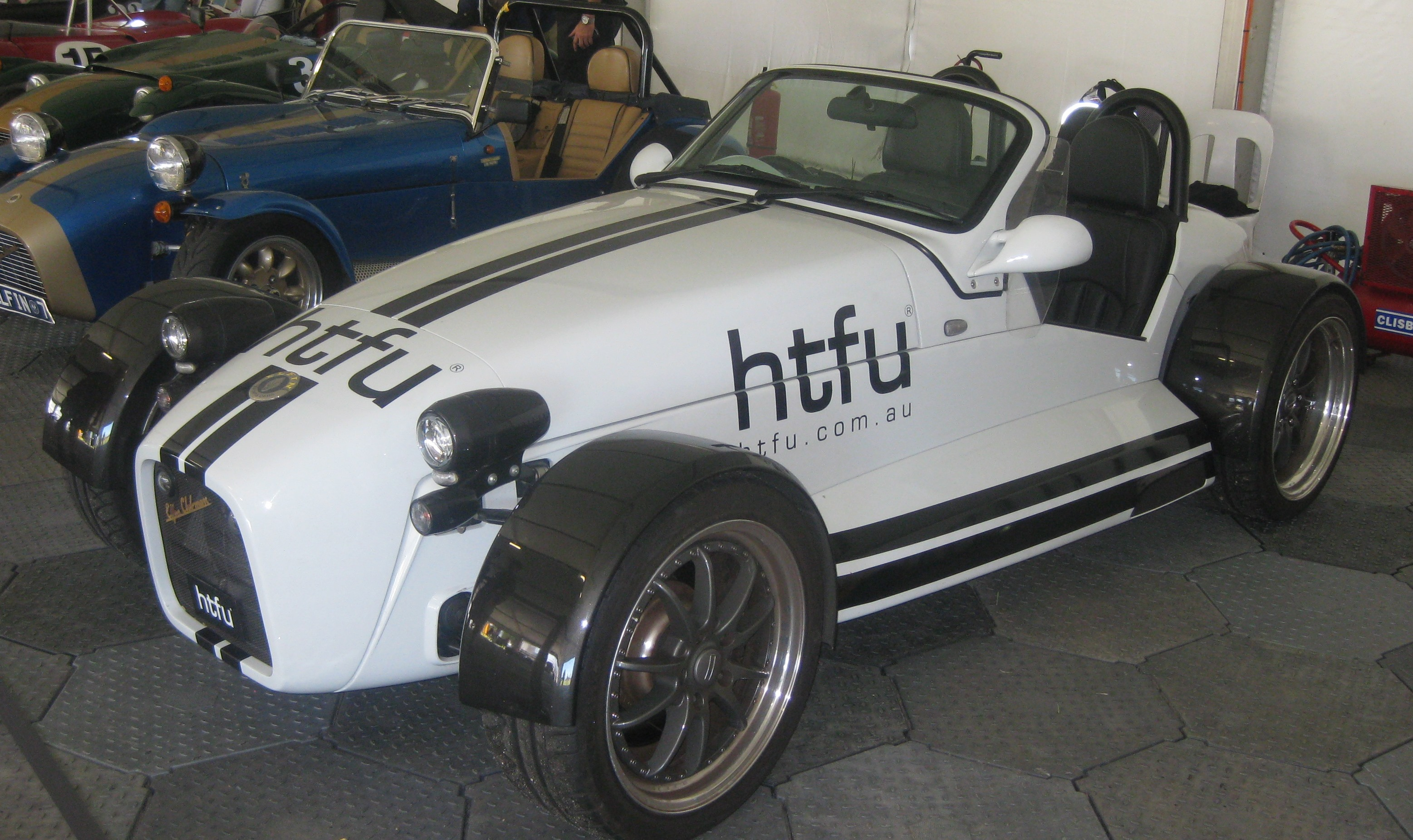 2007 Elfin MS8 Clubman